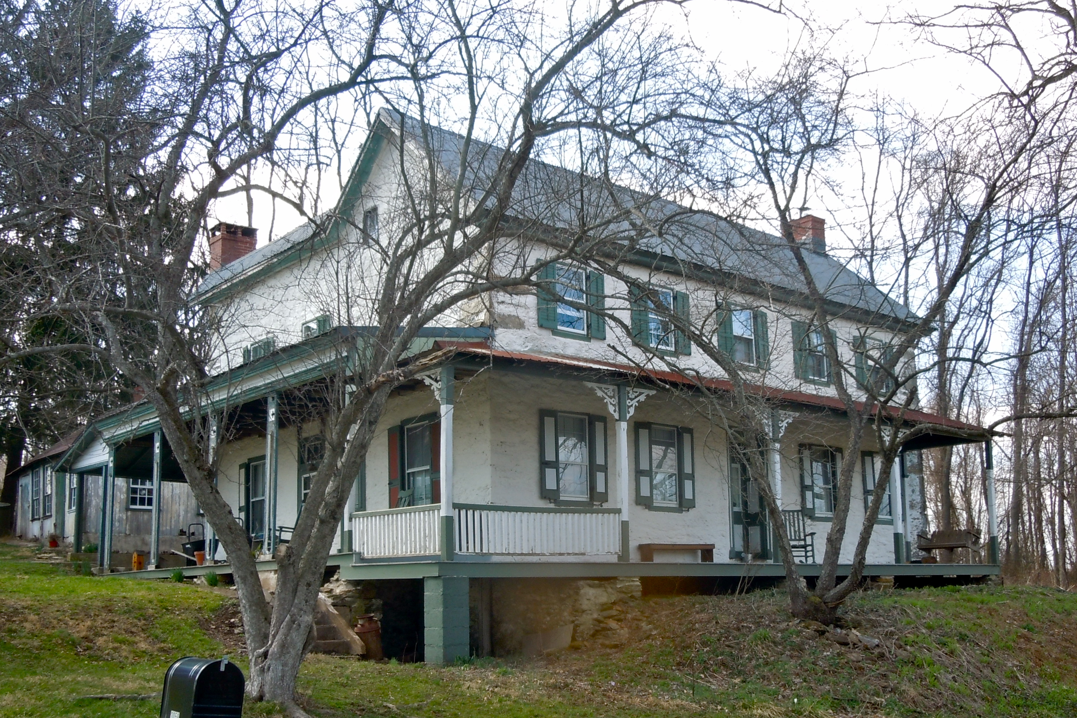 Joseph and Esther Phillips Plantation on the NRHP since September 5, 1990. On Bailey's Crossroads (road), south of Glen Run Road (sort of a road- local traffic only) and south of Atglen, in West Fallowfield Township, Chester County, Pennsylvania. Next farm to the south was also built by J&E P, according to a datestone, but this is the one on the NRHP.